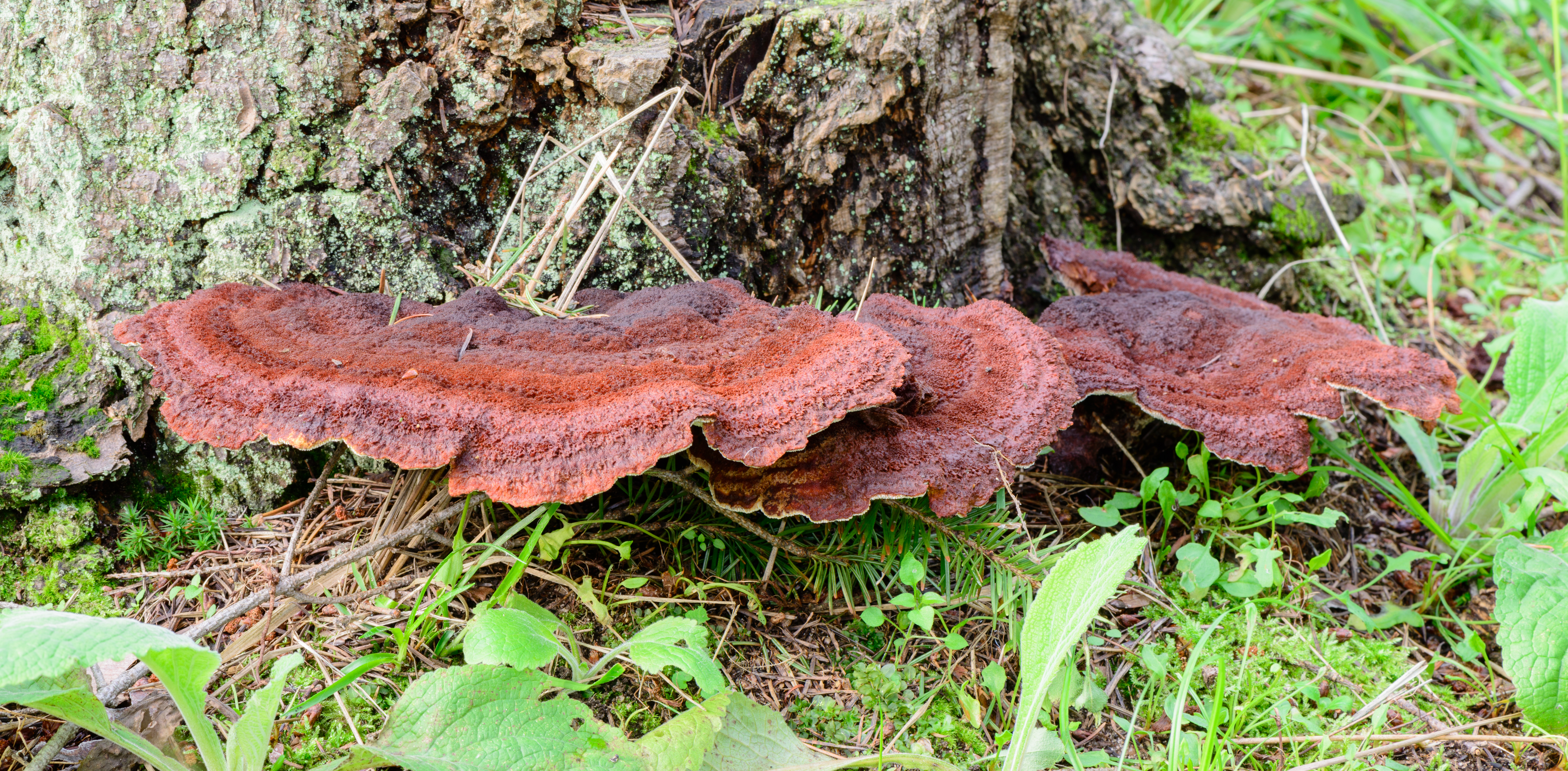 Ischnoderma benzoinum, Hesse, Germany.